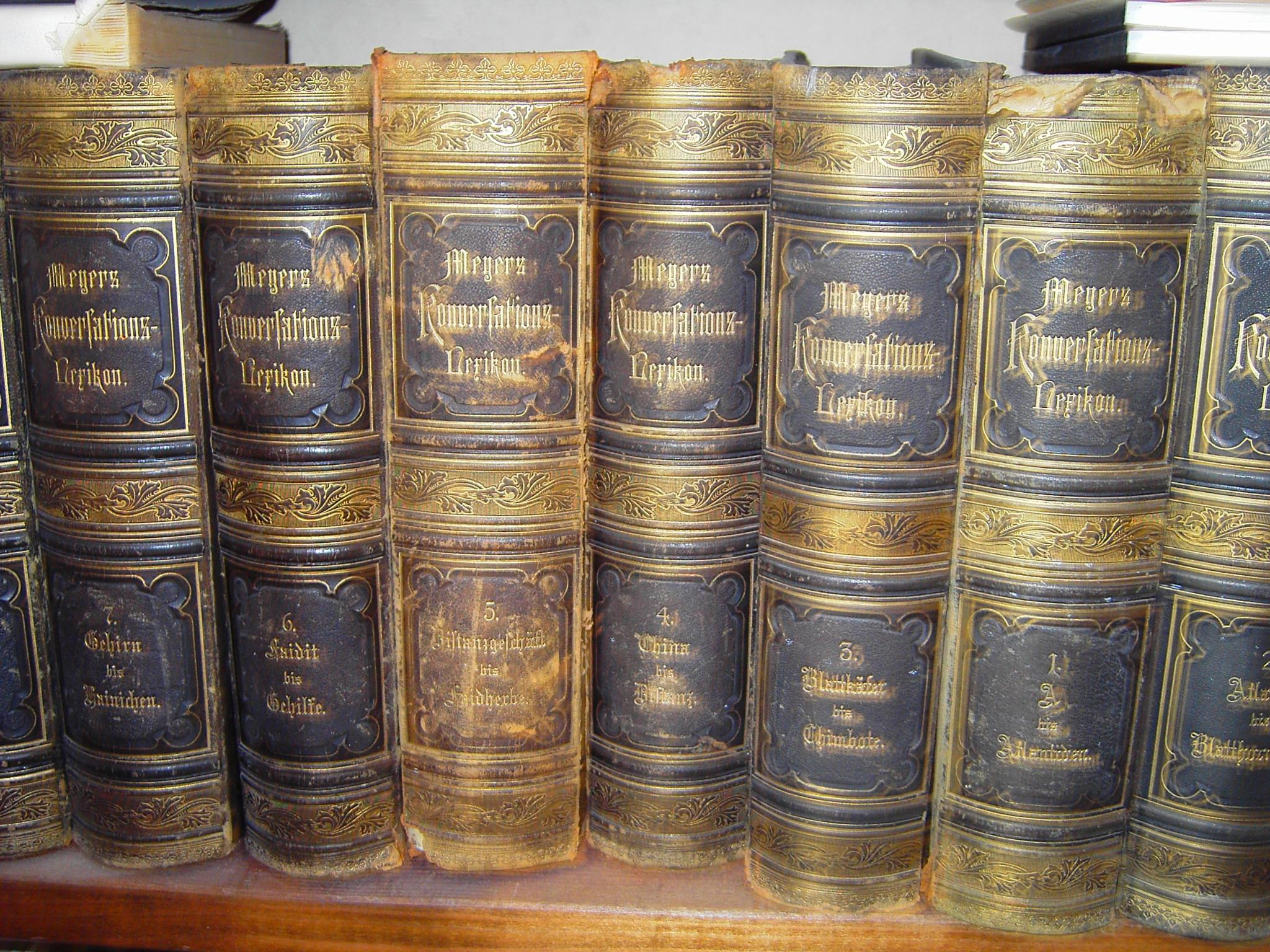 This is a photo from my Meyers Konversations-Lexikon from 1885.